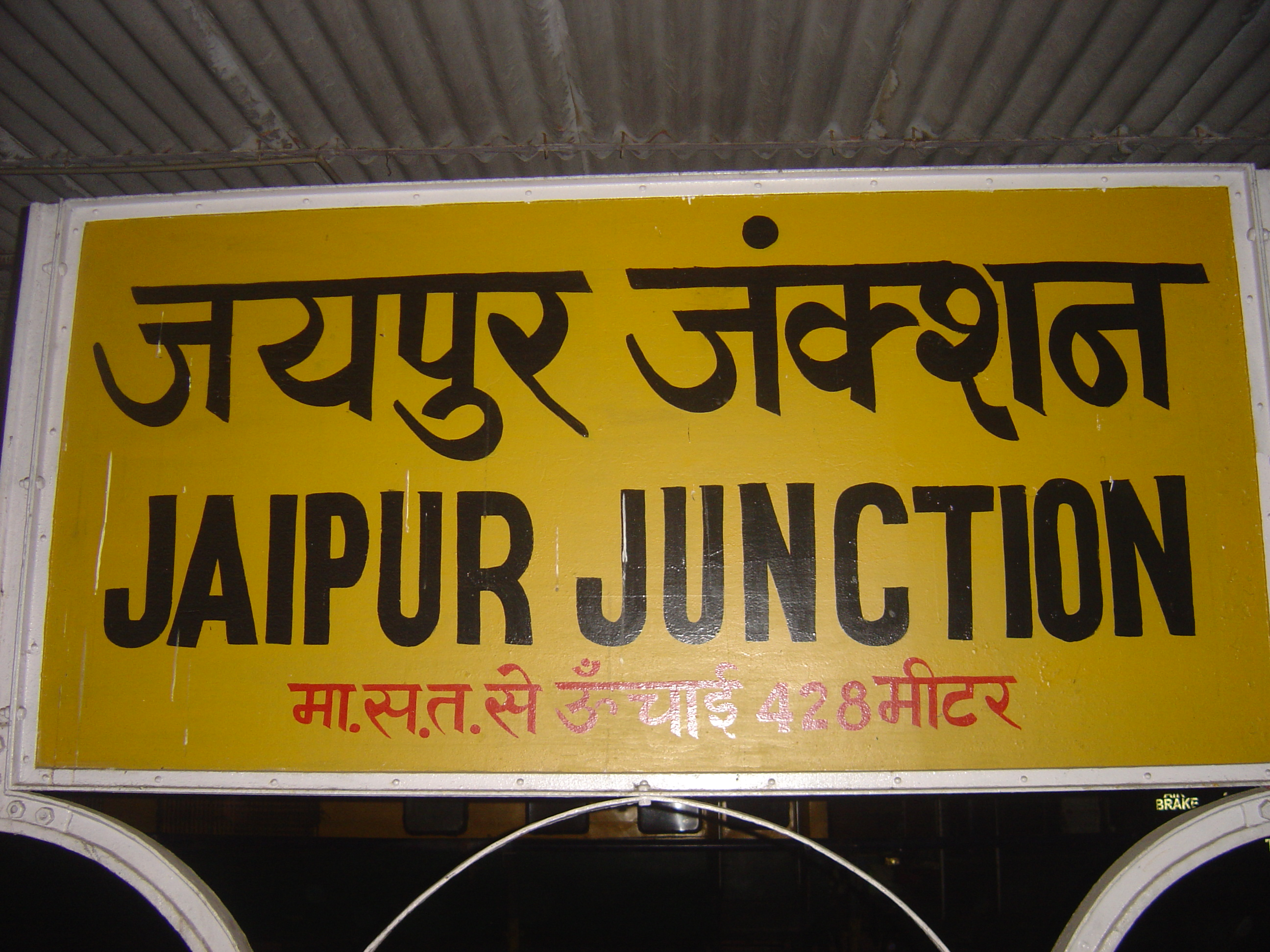 Jaipur Junction